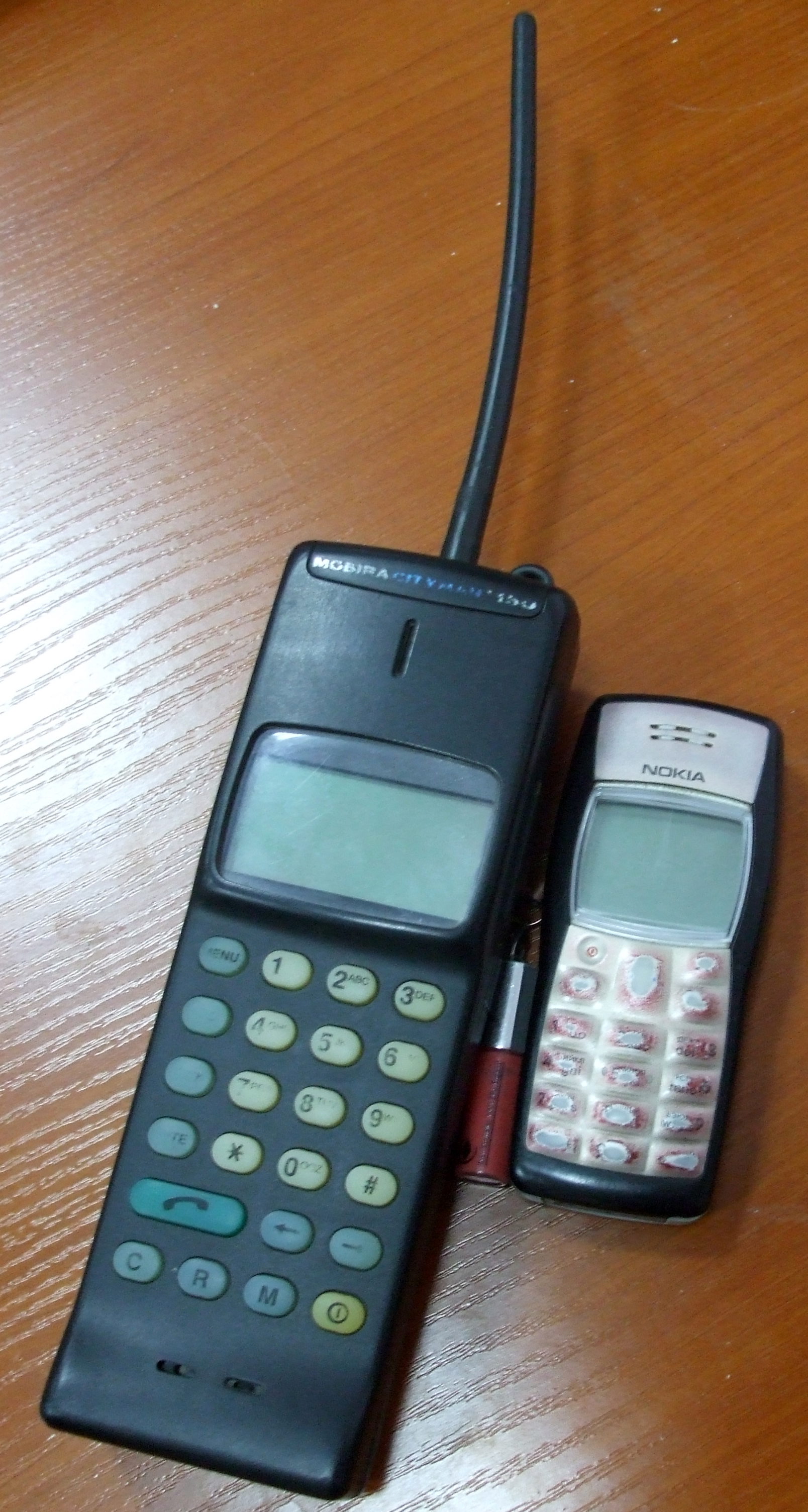 Nokia 150 (large) near Nokia 1100 (small) and lip shine (between them).